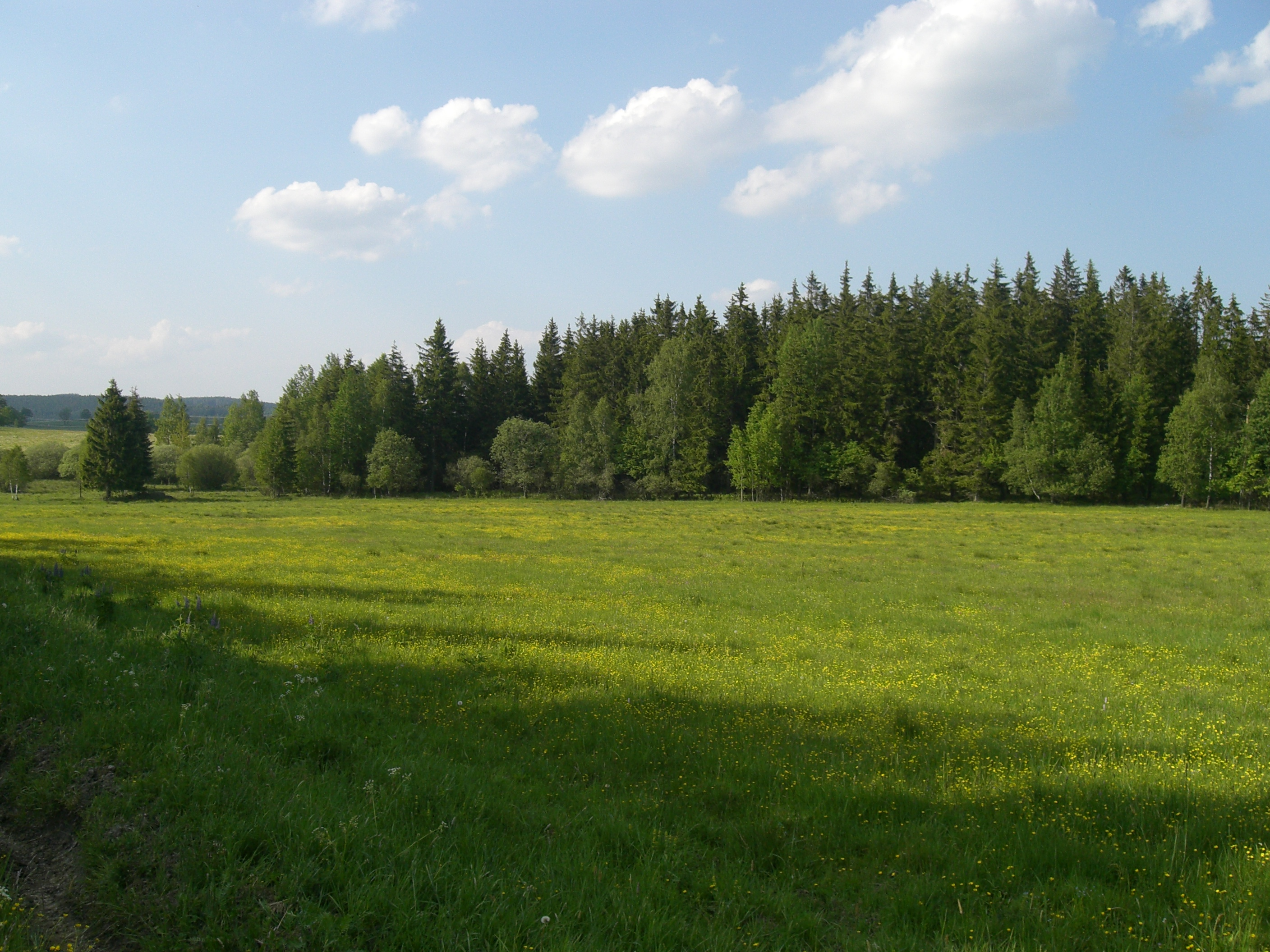 Slavkovský les, Czech Republic.